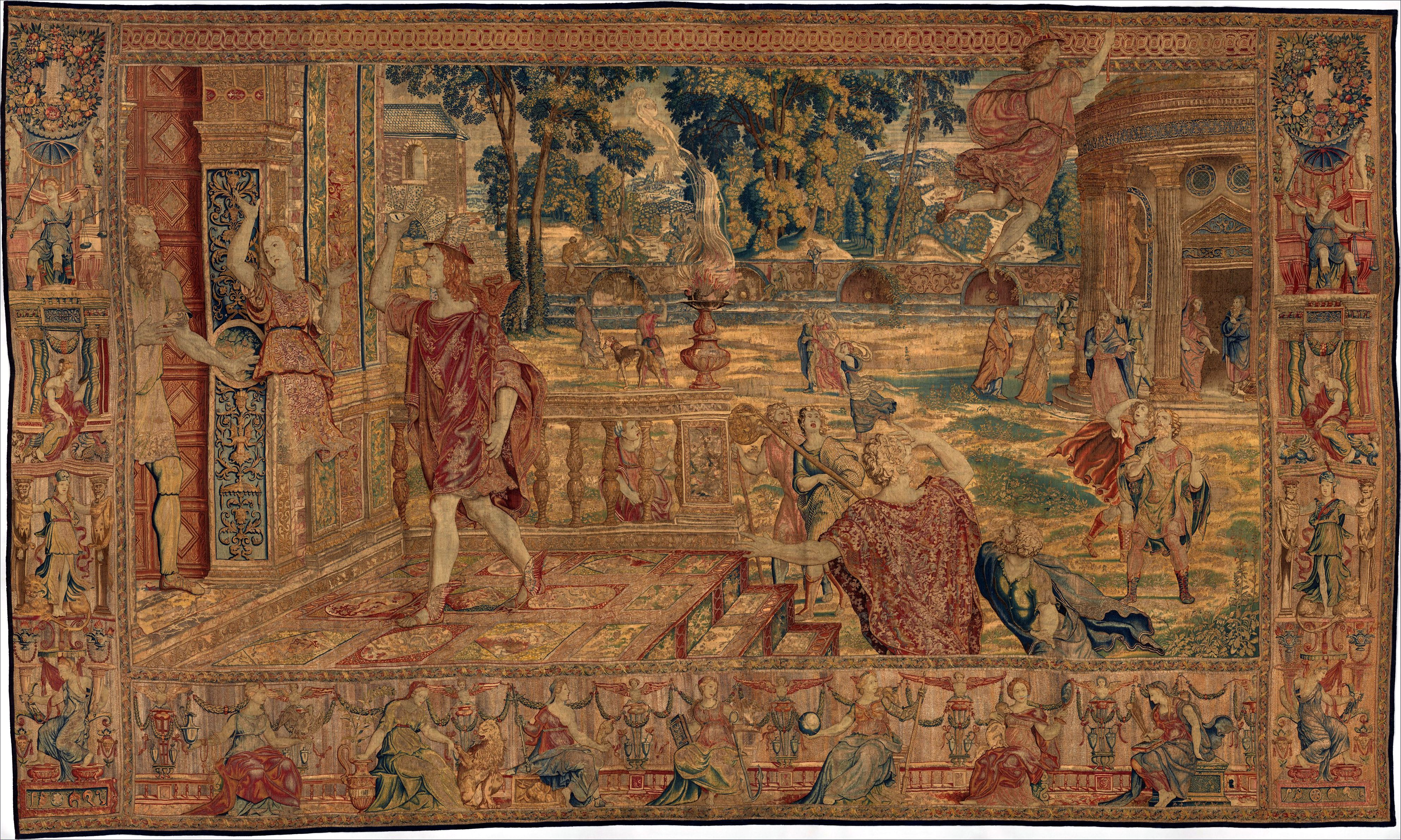 Aglauros Changed to Stone by Mercury, from a set of eight tapestries depicting the Story of Mercury and Herse.Design attributed to Giovanni Battista Lodi da Cremona (Italian, active 1540–52)Designer: Border design attributed to Giovanni Francesco Penni (Italian, Florence ca. 1496–after 1528 Naples)Weaver: Weaving workshop directed by Willem de Pannemaker, Brussels (active 1535–1578)Date: ca. 1550Culture: Flemish, BrusselsMedium: Wool, silk, silver and silver gilt thread (20-22 warps per inch, 8-9 per cm.)Dimensions: Overall: 170 1/16 x 283 1/16 in. (432 x 719 cm) Overall: 177 x 282 in. (449.6 x 716.3 cm)